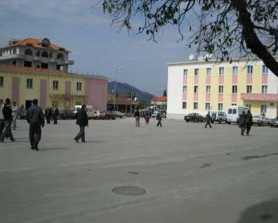 Gramshi (Albania)